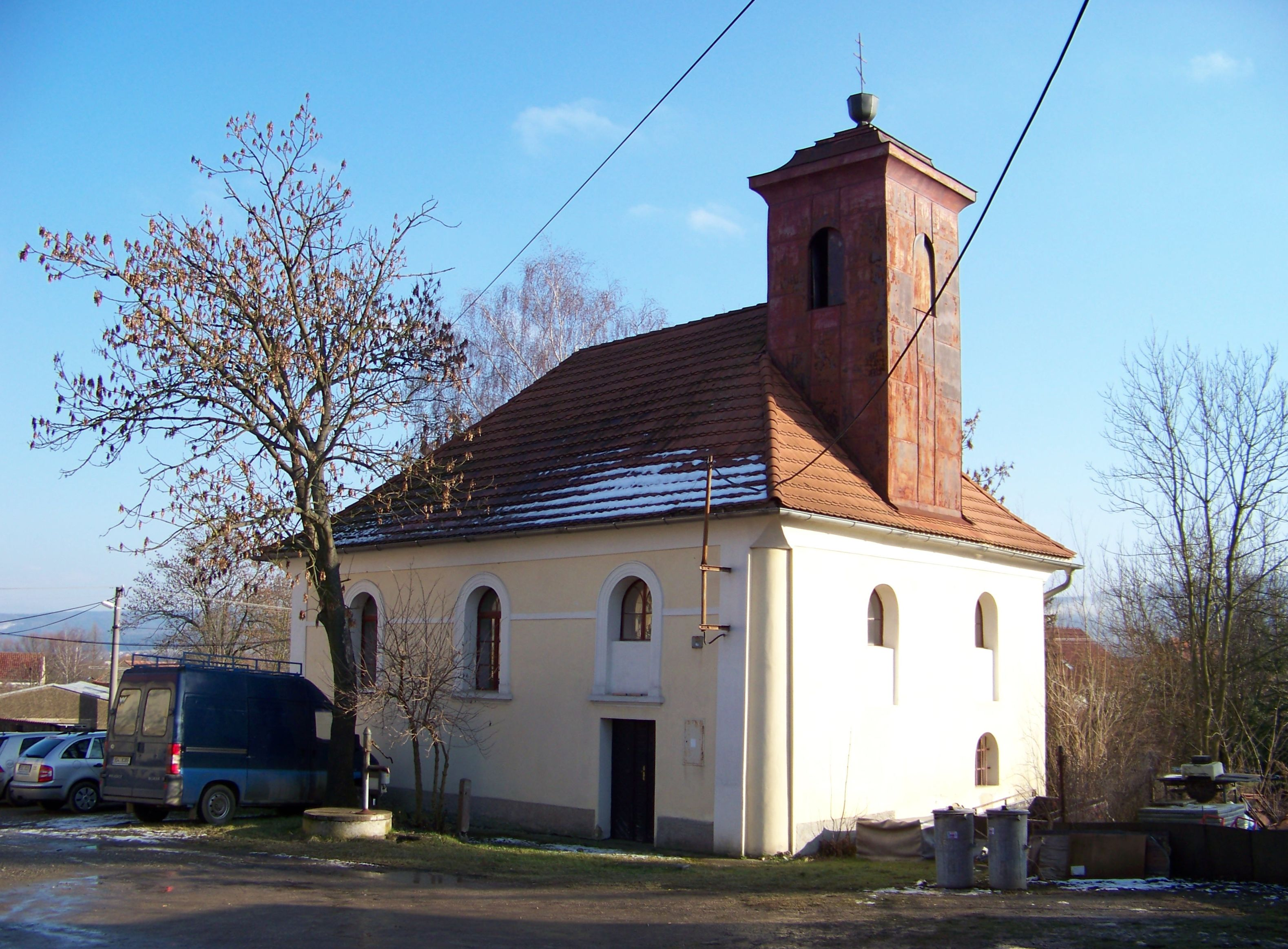 Všeradice, Beroun District, Central Bohemian Region, Czech Republic. Church of the Czechoslovak Hussite Church, formerly a synagogue.